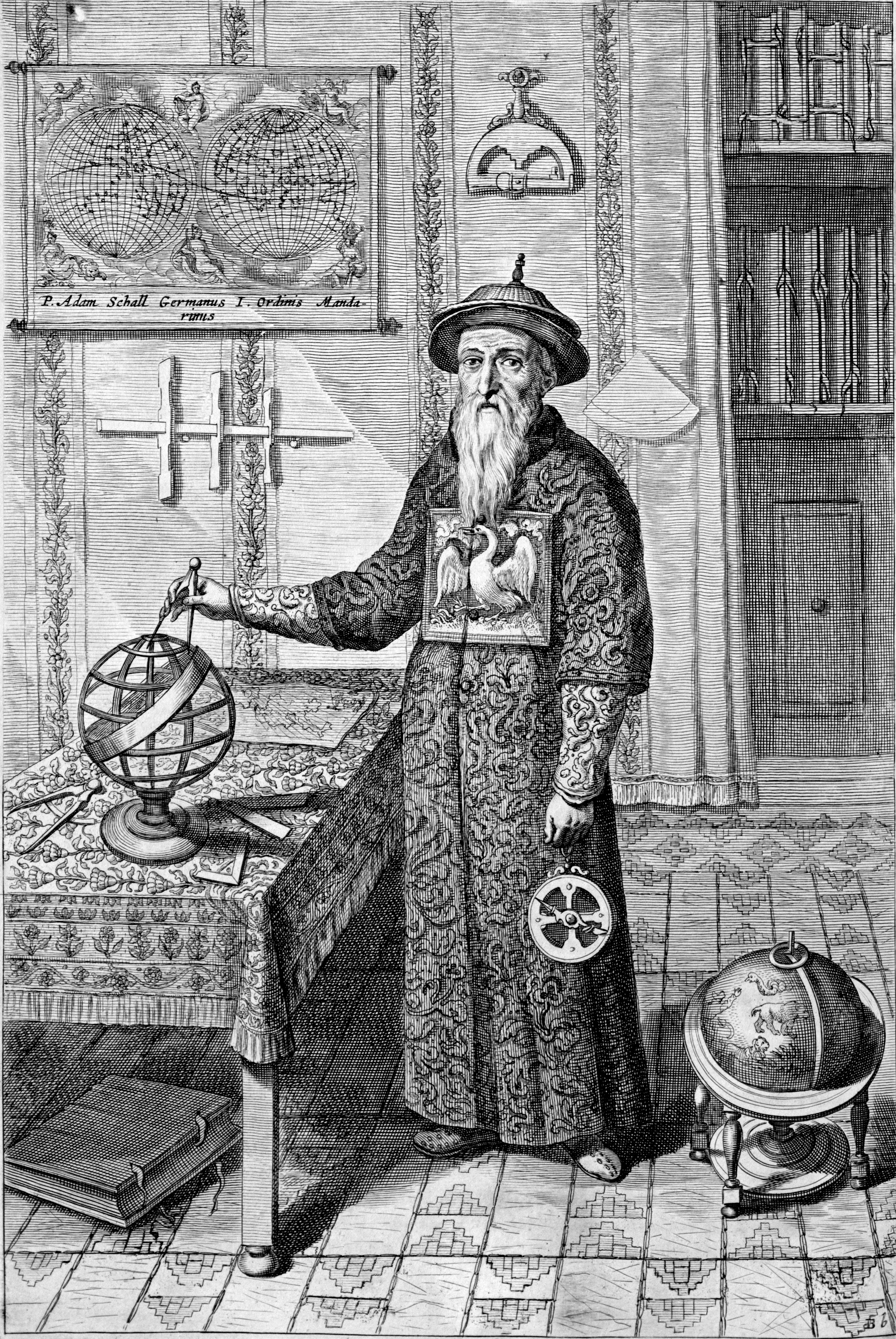 Kircher writes: "Here I think it fitting to include drawings of Fr. Adam Schall, who is dressed as a mandarin of the Department of Astronomy, and of the Sino-Tartar King." (Page 109, in a modern English translation by Dr. Charles D. Van Tuyl)